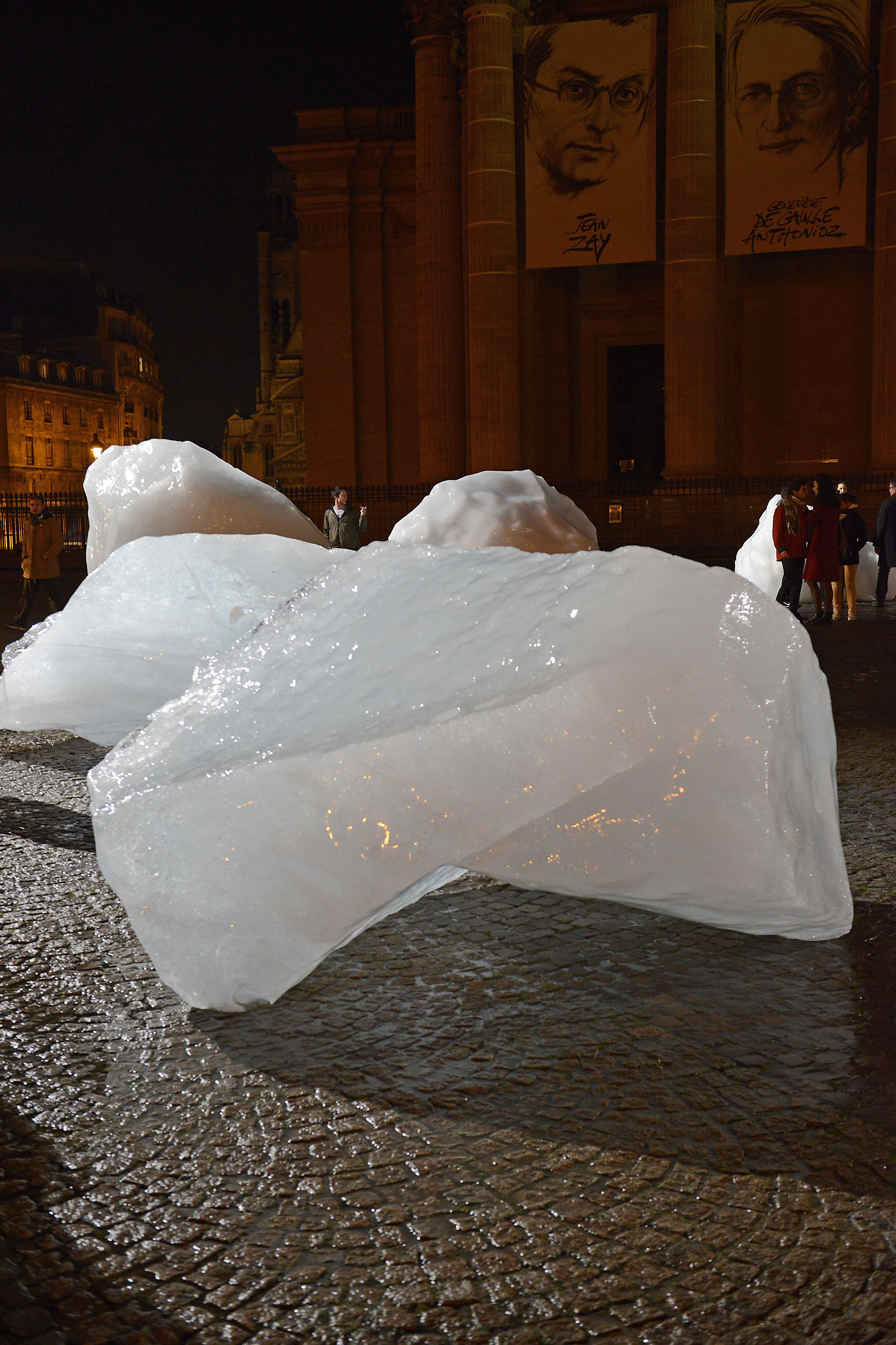 Artwork by Olafur Eliasson and Minik Rosing. More information here